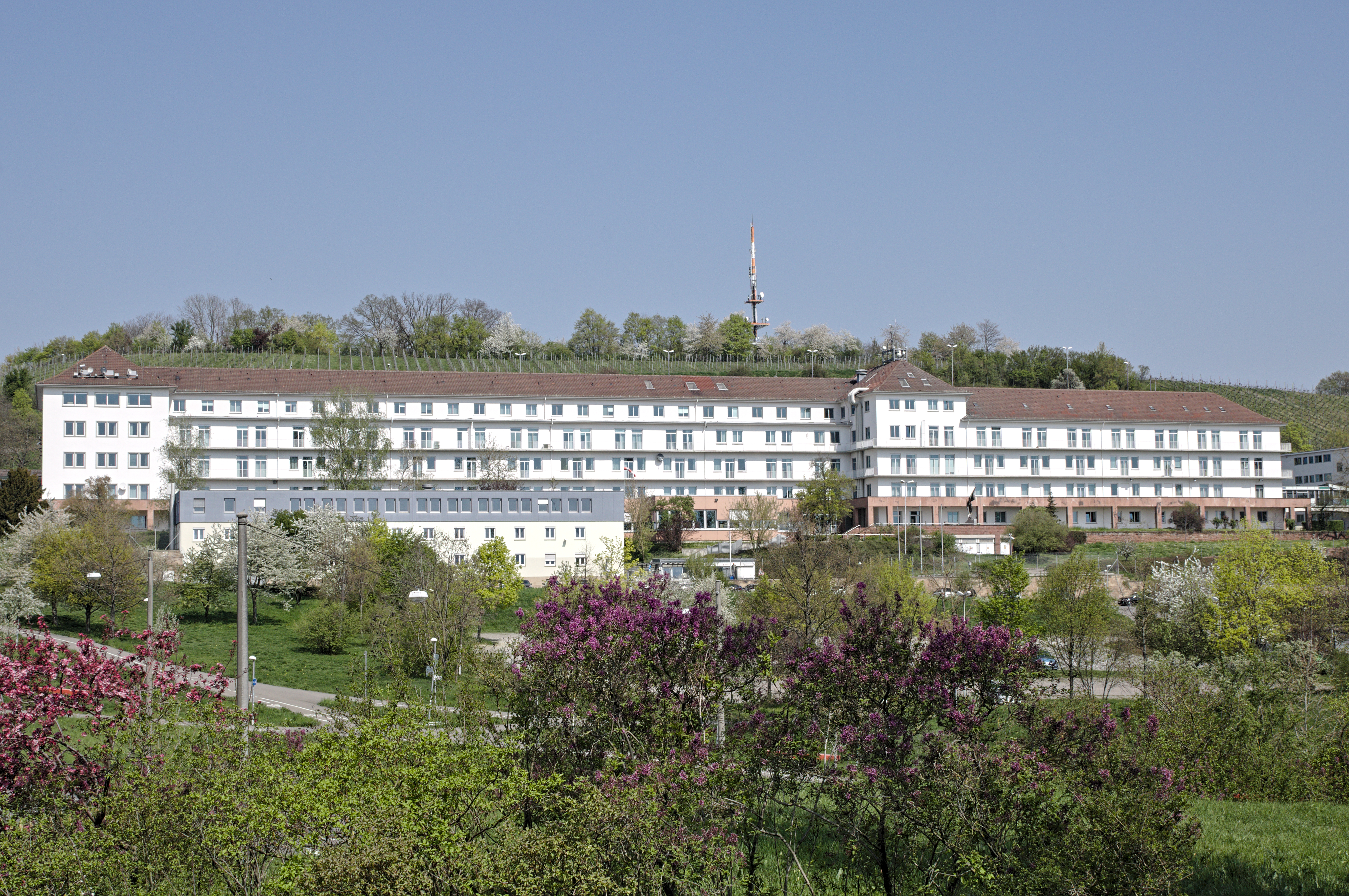 Polizeipraesidium_Stuttgart in Stuttgart